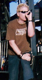 Dexter Holland, Warped Tour 2005 in Milwaukee, WI